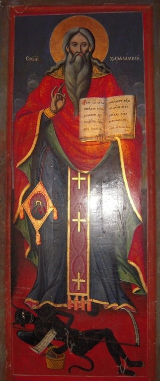 Saint_Charalambos_Icon_from_the_Iconostasis_of_St_Nicholas_Church_in_Toplitsa